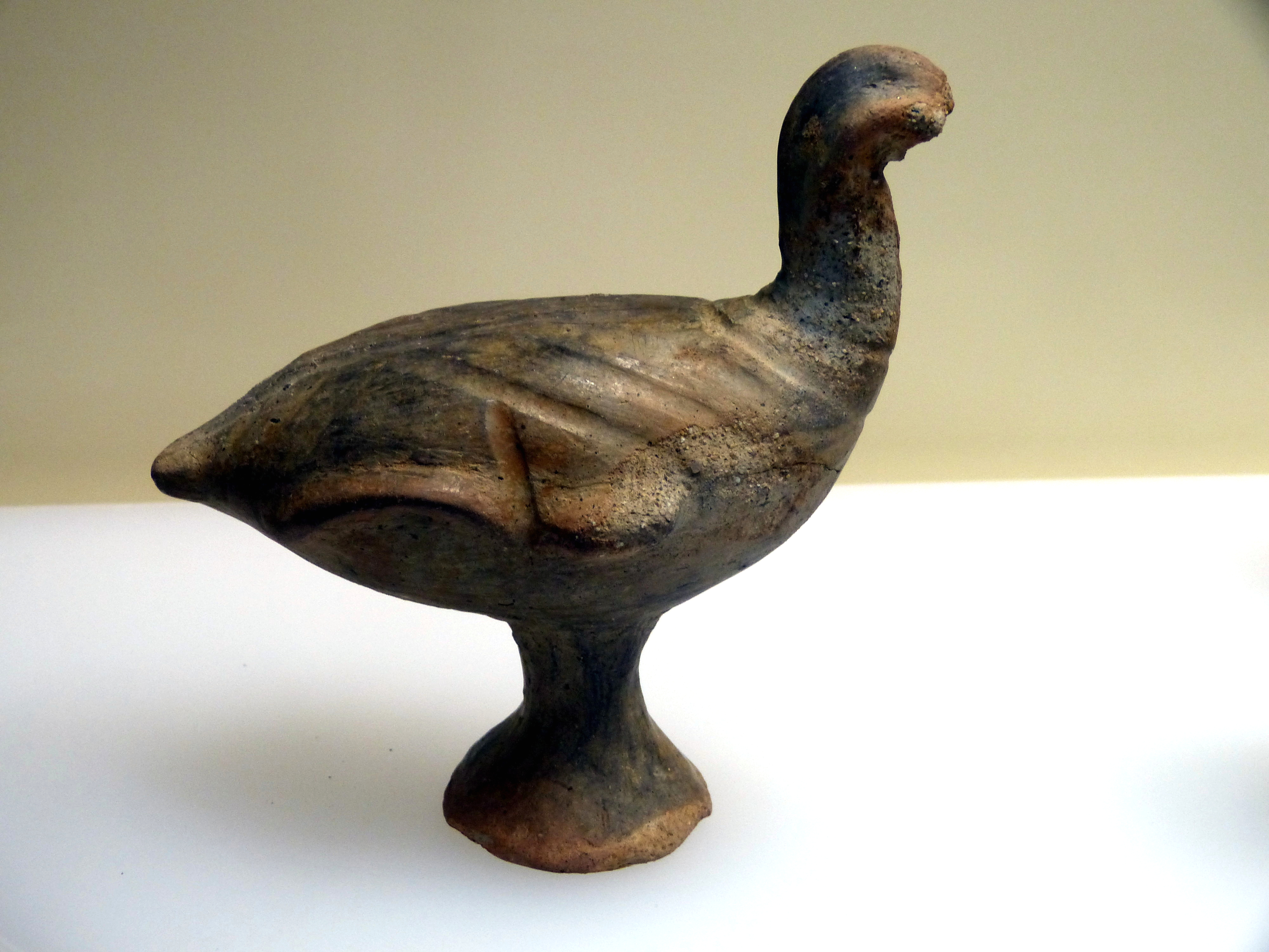 Brandenburg an der Havel ( Germany ) . Archaeological Museum of the state of Brandenburg - Bronze Age Gallery: Bird rattle of the Billendorf culture, from grave 36 near Krieschow.